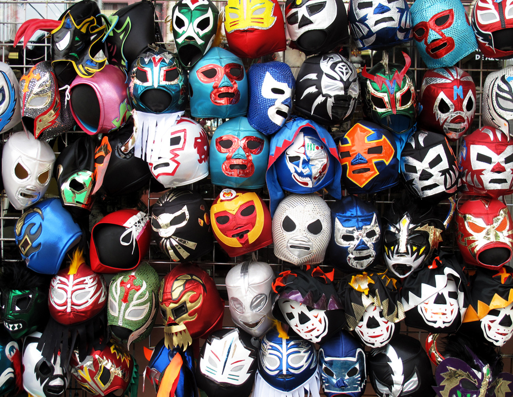 A picture of commercially sold Luchador masks